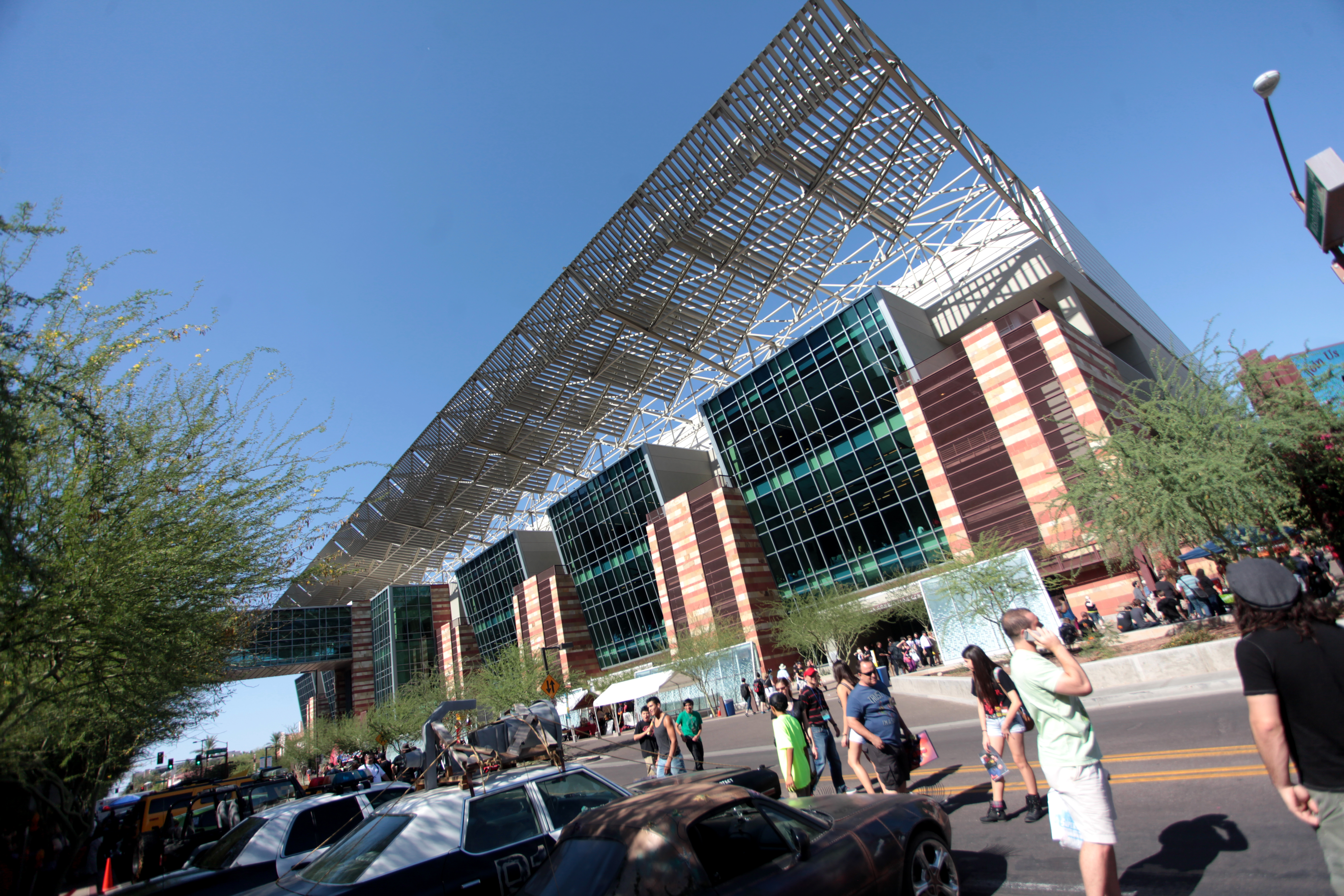 The Phoenix Convention Center during the 2014 Phoenix Comicon on June 8, 2014.